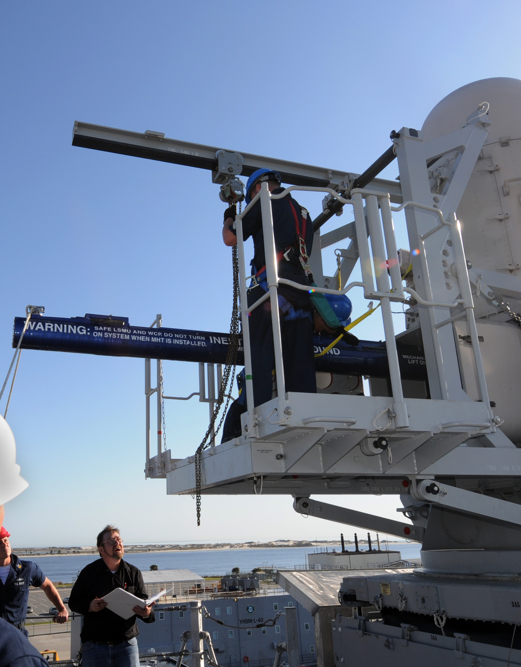 MAYPORT, Fla. (April 6, 2010) Sailors and civilian personnel aboard the littoral combat ship USS Independence (LCS 2) hoist a training round into the Sea Rolling Air Frame Missile (SEARAM) launcher. Independence is the first vessel in the U.S. Fleet to carry the SEARAM weapon system. (U.S. Navy photo by Mass Communication Specialist 2nd Class Justan Williams/Released)